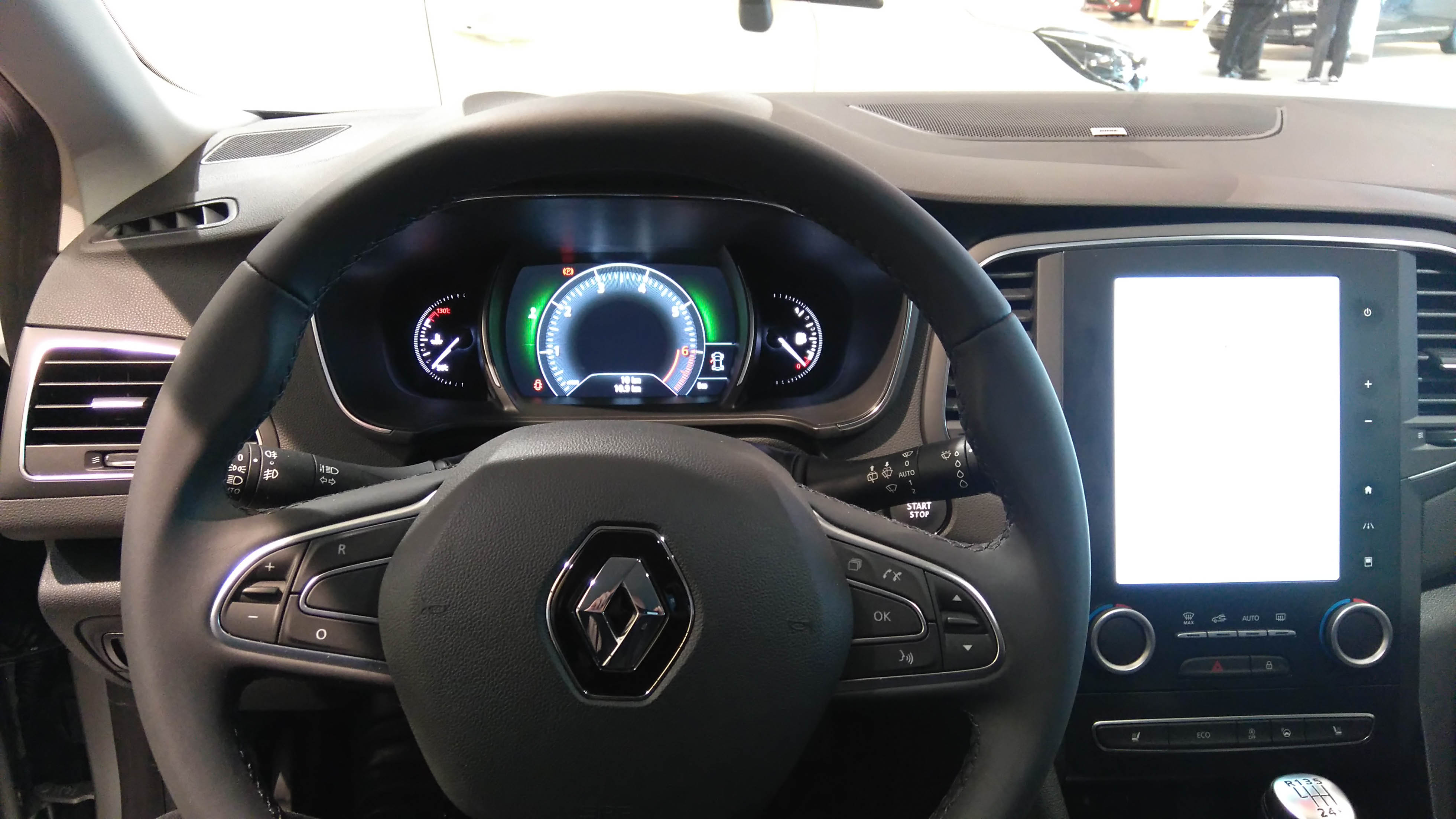 2016 Renault Megane IV